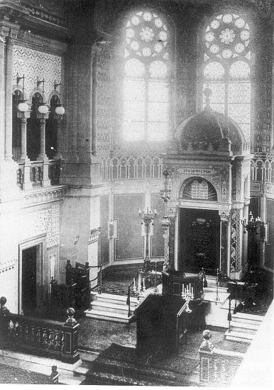 Photography of the synagogue of Kaiserslautern - inside view